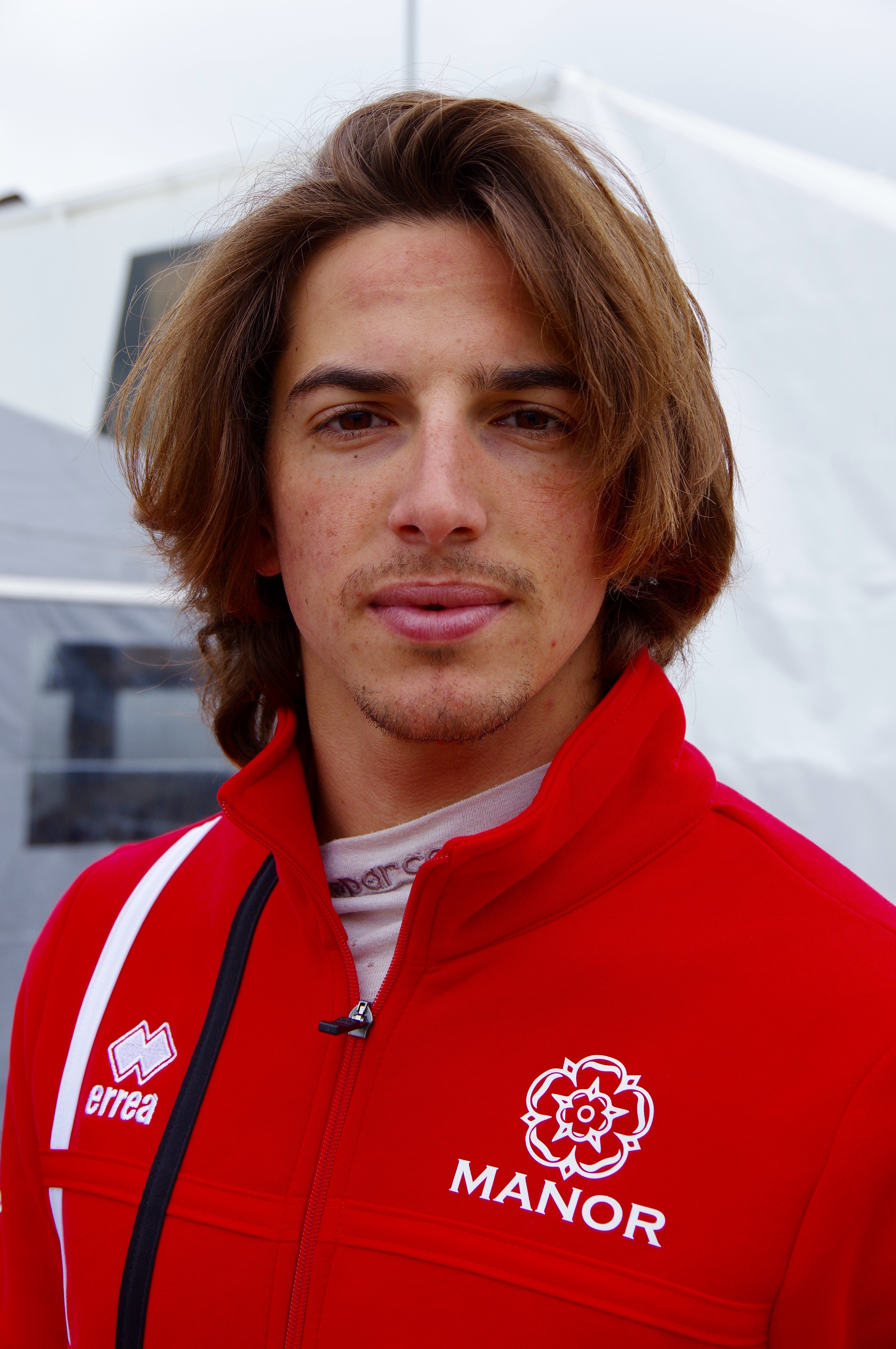 Roberto Merhi, driver of Manor Racing's Oreca 05 Nissan